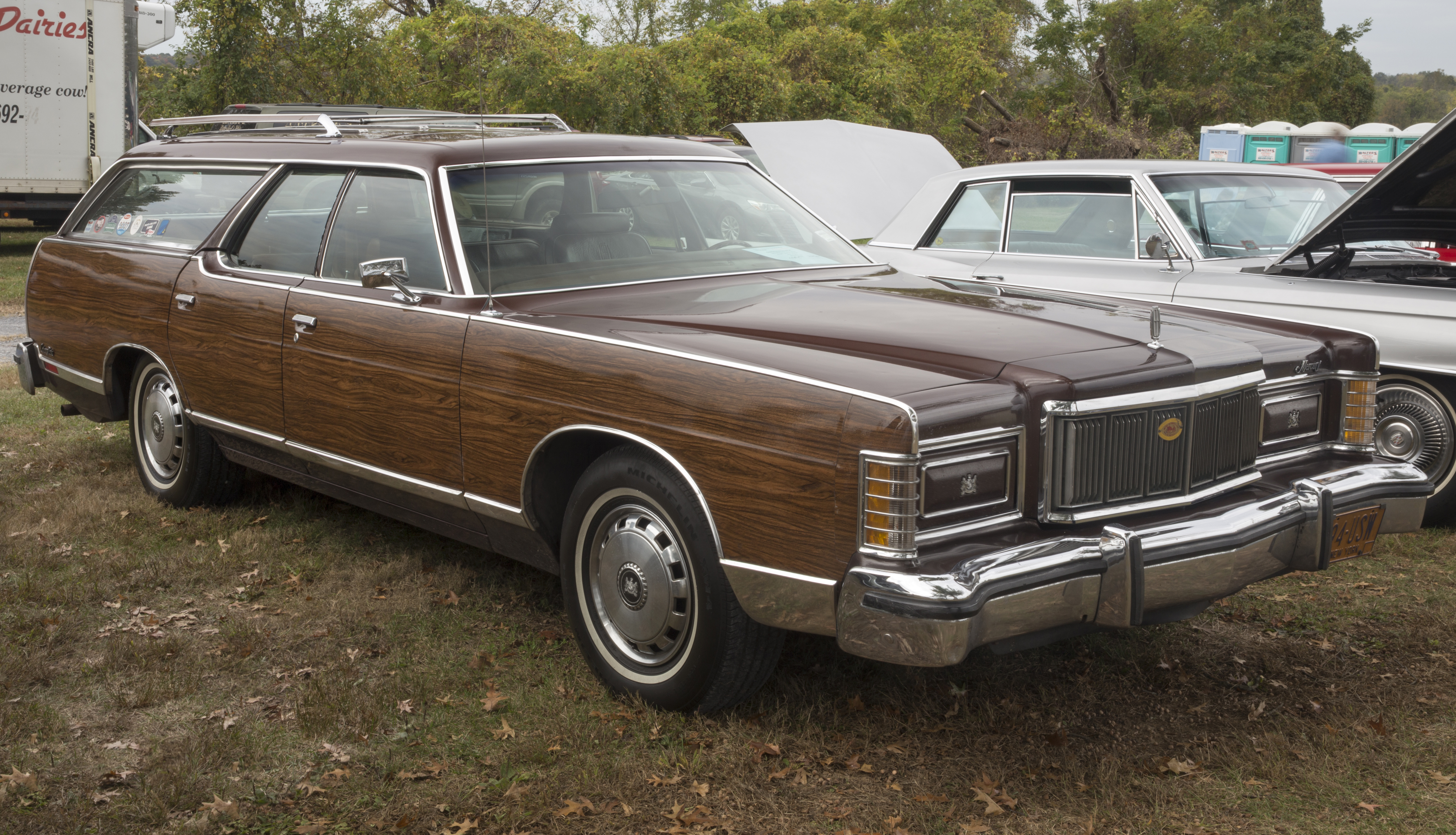 1978 Mercury Colony Park in the show area at Hershey 2019. Two-barrel 400ci (6.6L) V8, assembled in St. Louis, MO.